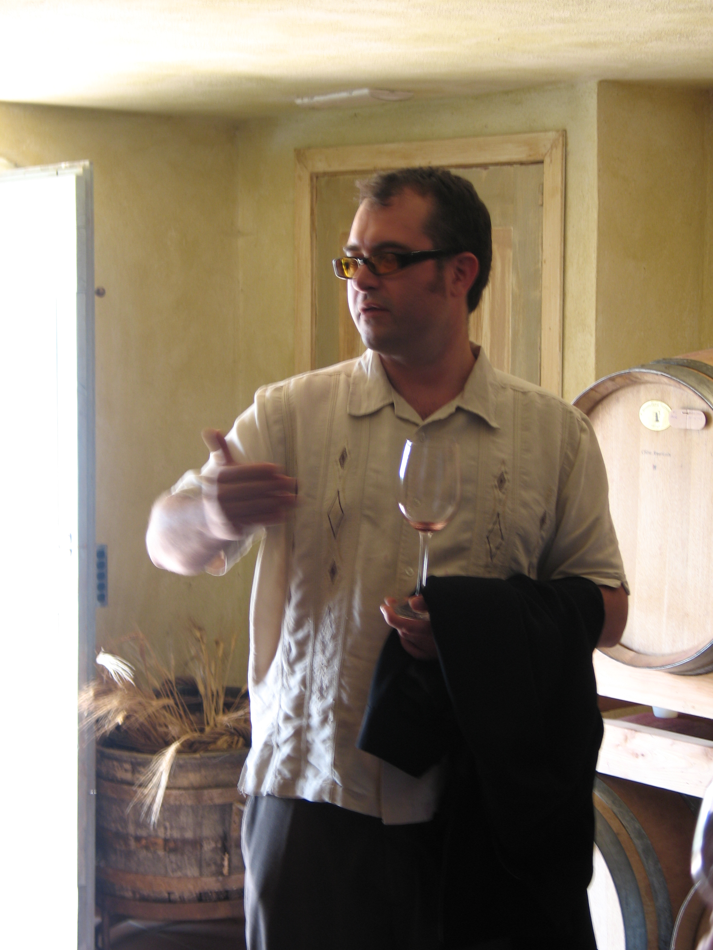 While working as a winemaker in Tuscany, Keith Wallace often held tasting for sommeliers and wine buyers.